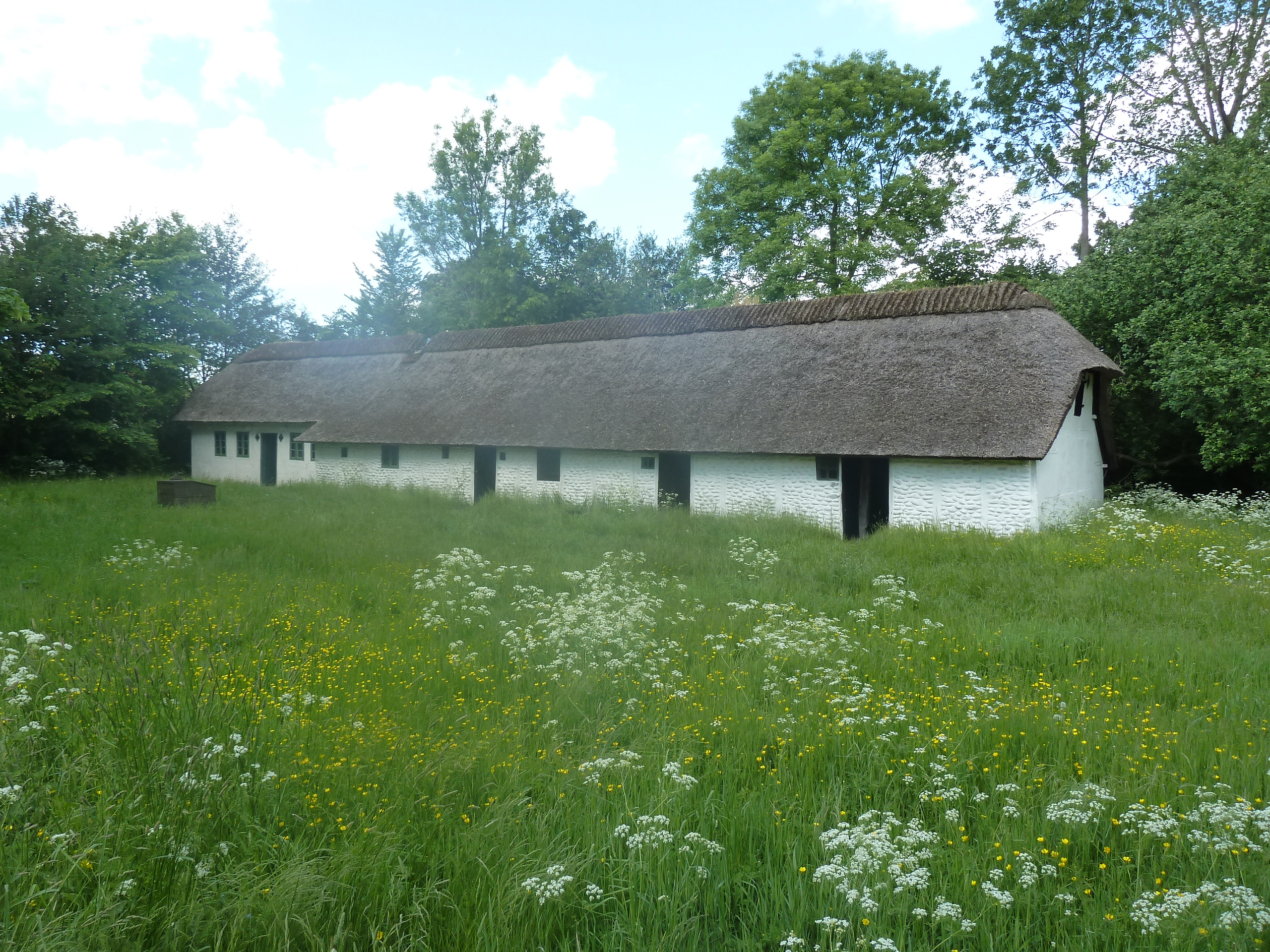 Fisherman's house from Agger, now on Frilandsmuseet (the open air museum) north of Copenhagen.